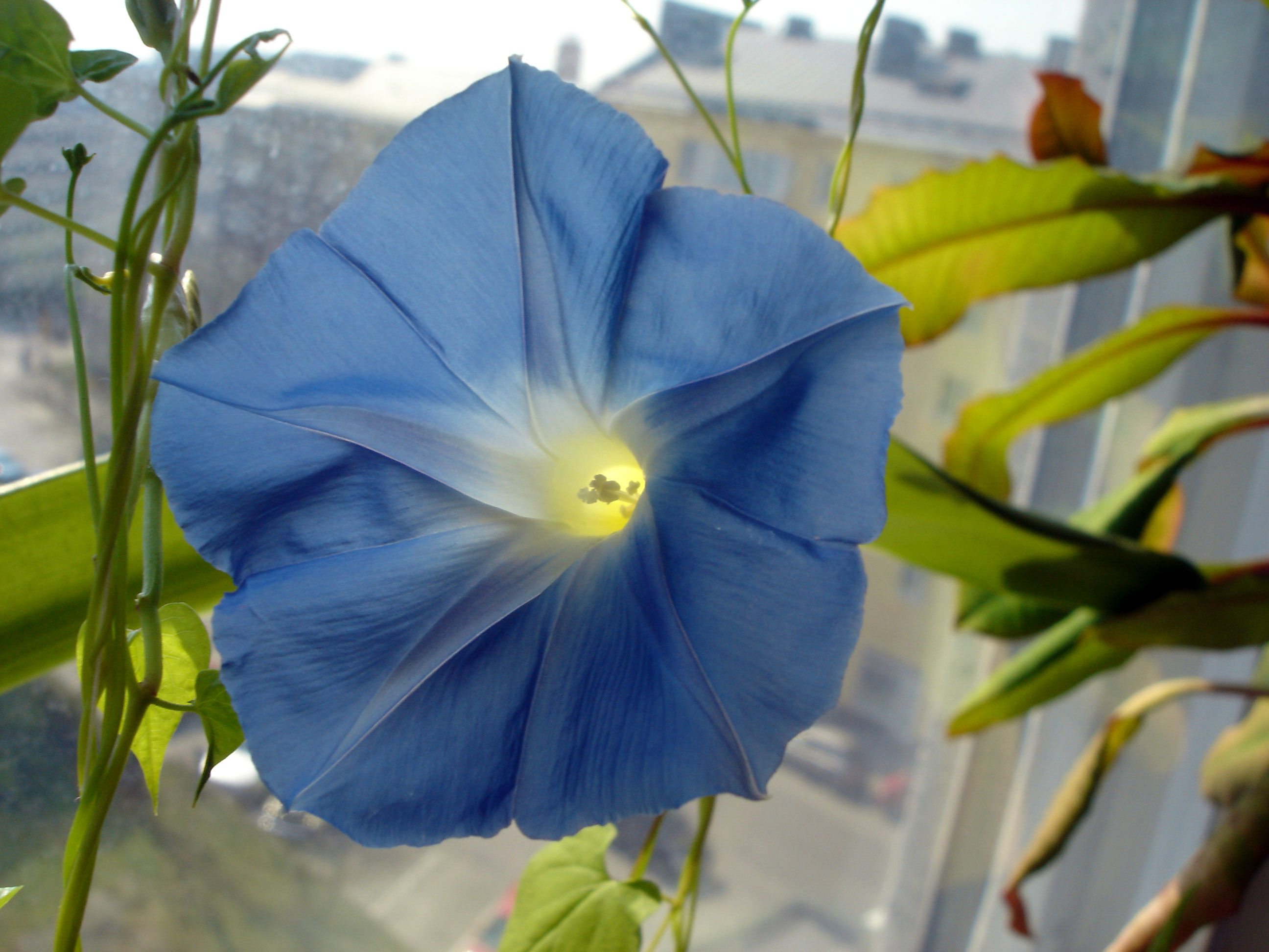 Ipomoea tricolor